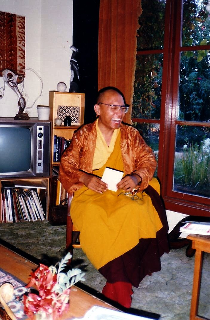 His Holiness Gyalwang Drukpa in Alice Springs, Australia.